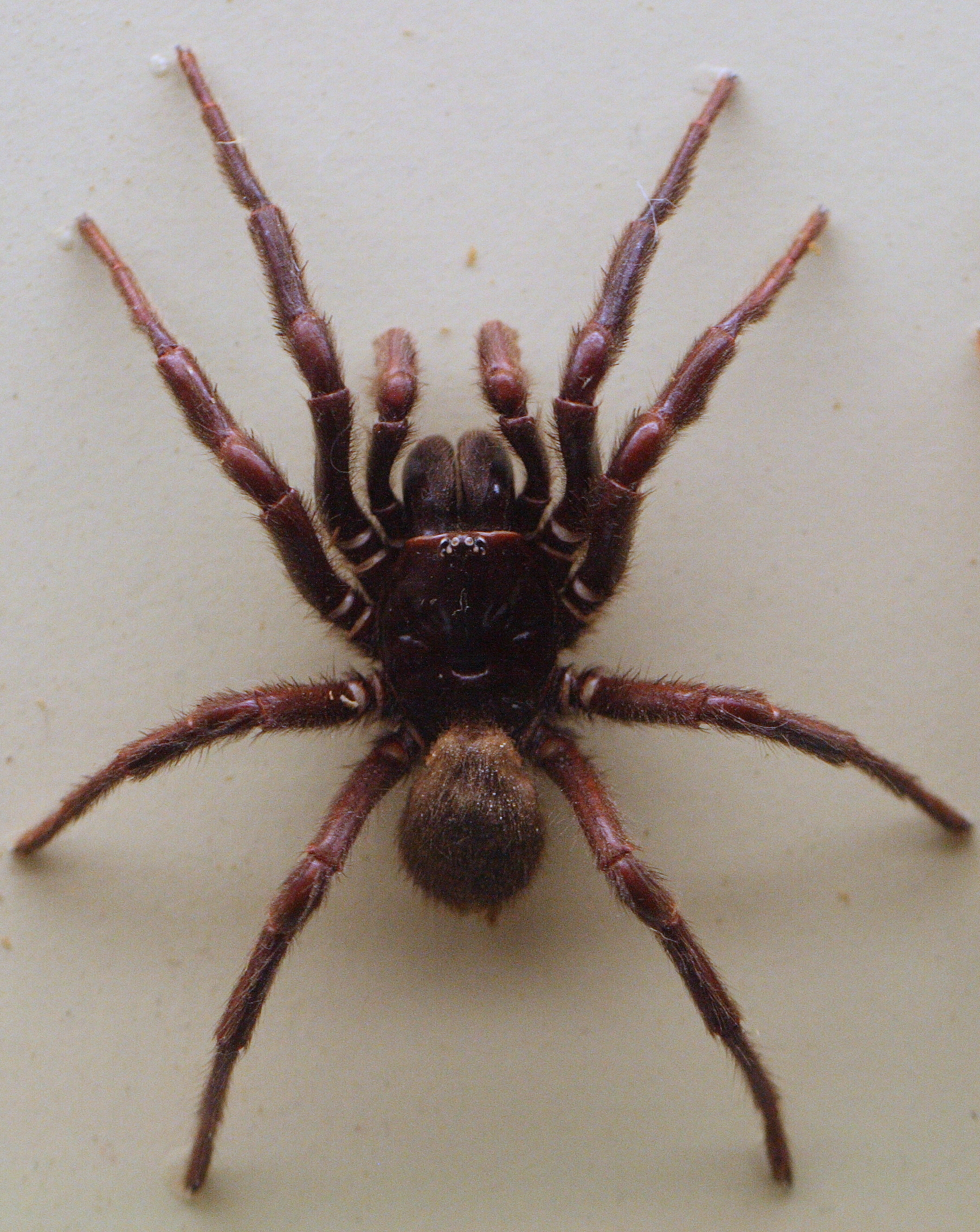 Specimen in the Australian Museum spider display.